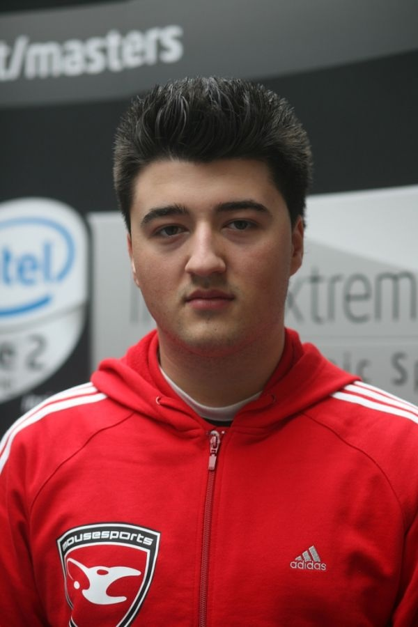 Antonio 'cyx' Daniloski